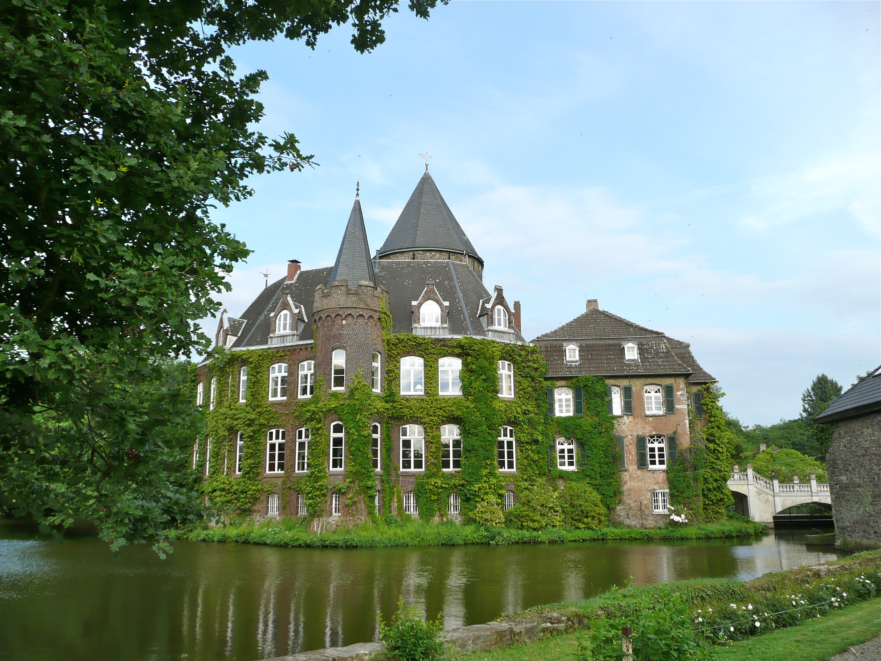 Small manor/castle of ratingen linnep